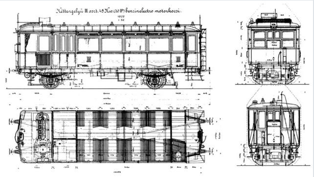 Plans of the first petrol-electric railcar series, which was built since 1903, most items since 1906, by Johann Weitzer Company (Arad) for ACsEV (United Arad and Csanád Railway Comapny) in Hungary (since 1919 in Romania). The internal combustion engine came from De Dion-Bouton, the electric equipment from Siemens-Schuckert